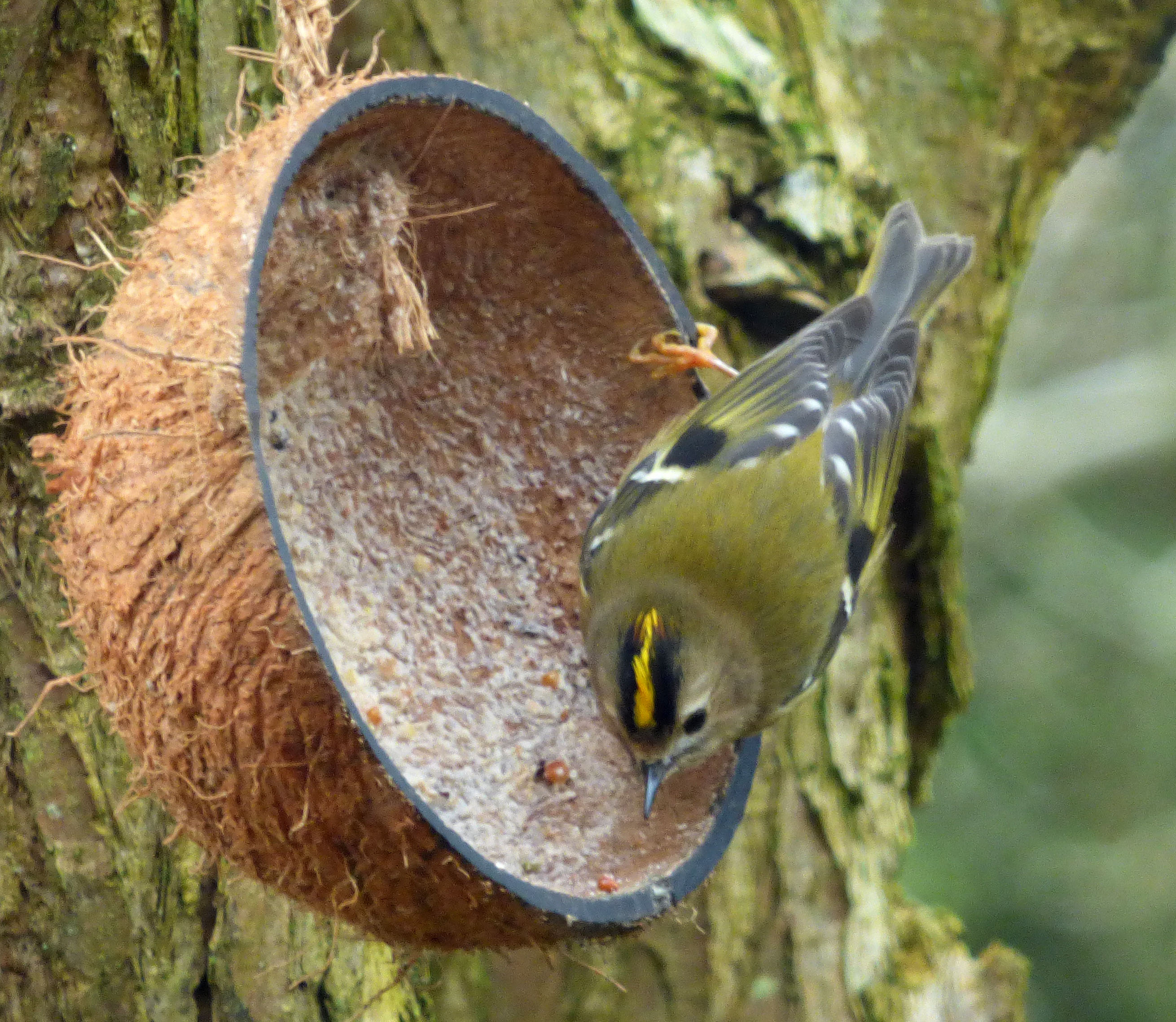 Cradley, Malvern, Worcs. SO7347